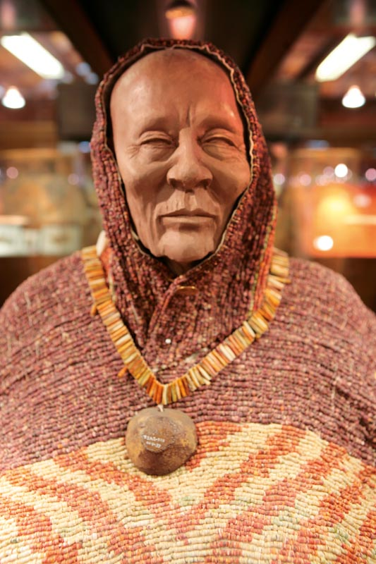 Mummy from La Florida in Quito